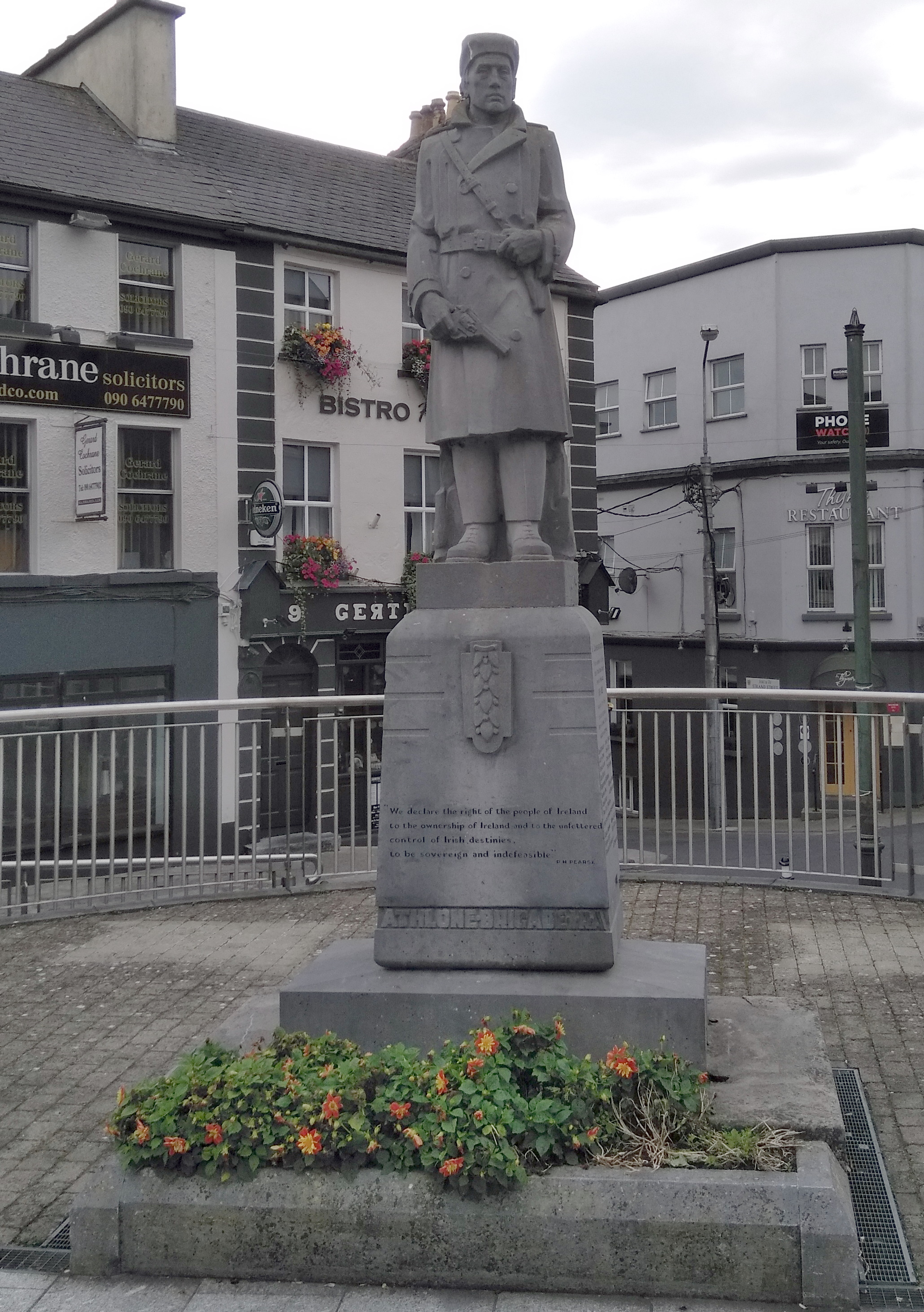 Athlone, IRA Memorial. Wikidata has entry Q55029832 with data related to this item.